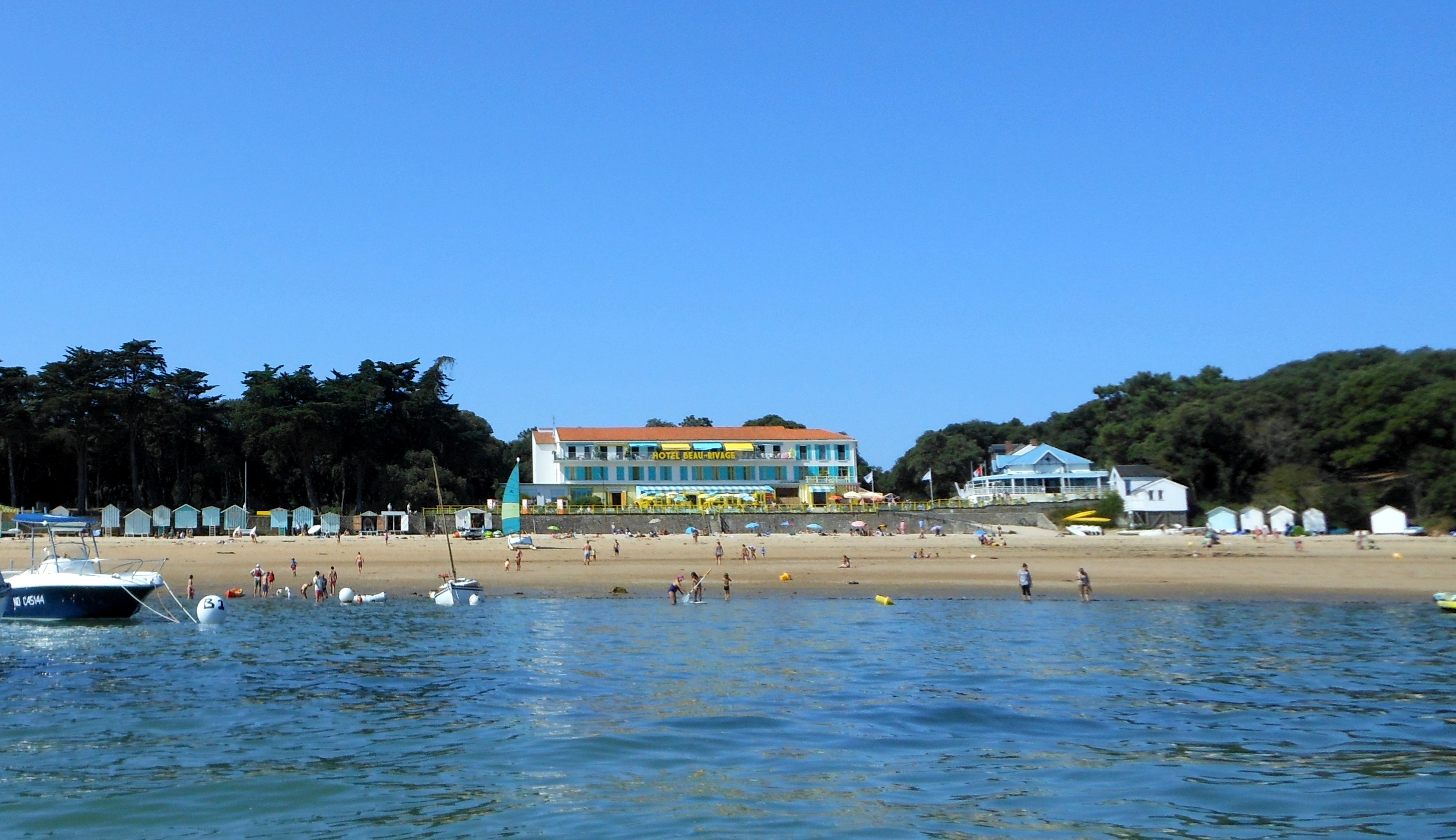 Plage des Dames, island of Noirmoutier. Photograph taken on October 21st, 2013, at 12:15, from the sea. Note: this picture is a cropped version of the original picture.